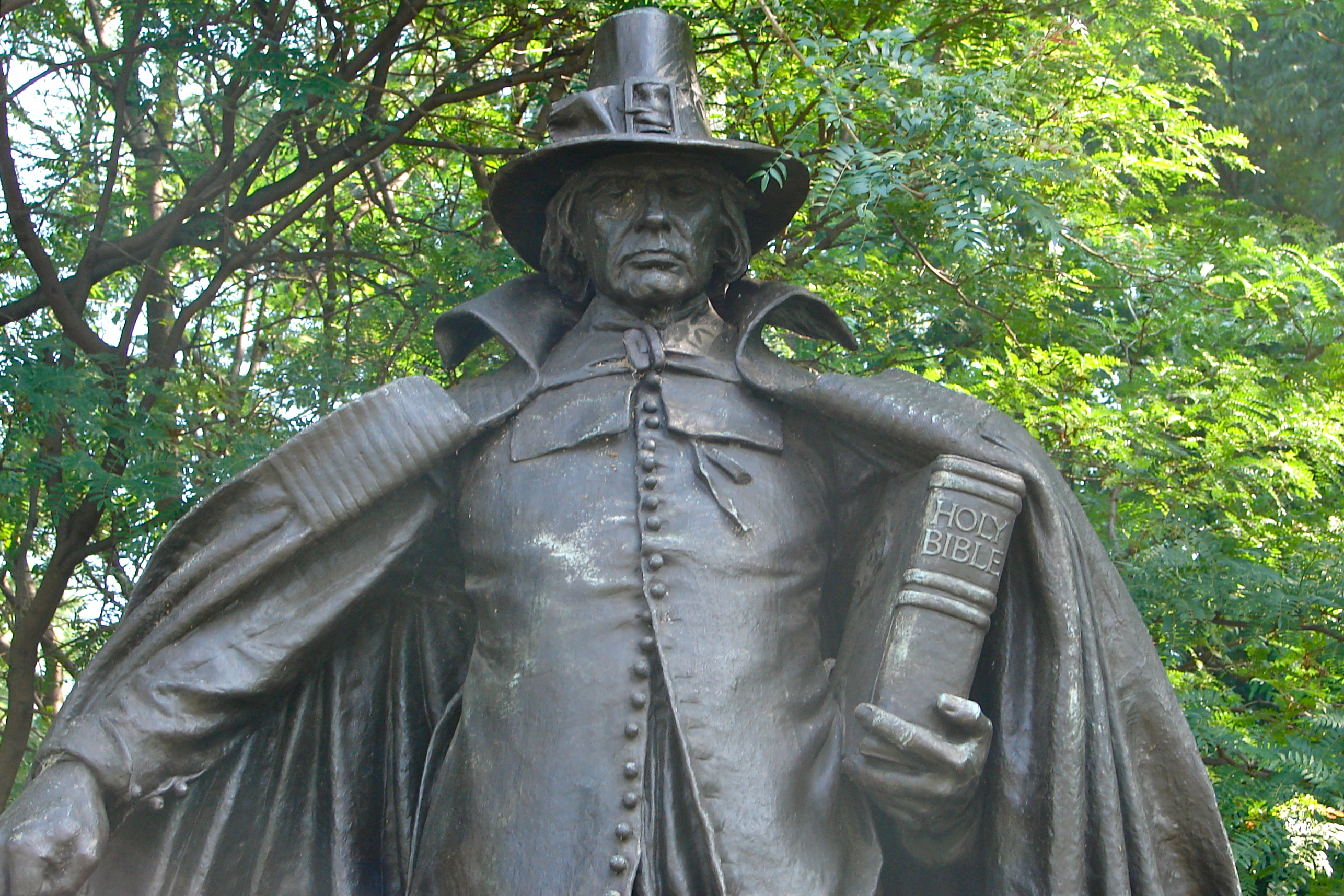 By Augustus Saint-Gaudens, 1904, based on his earlier "The Puritan" in Springfield, Mass. Face and folds of cloak differ and book is labeled "Holy Bible". On Kelly Drive, near the Boathouses, in Philadelphia. Formerly stood in the south plaza of City Hall.